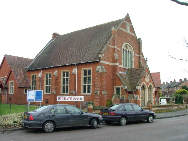 Bunyan Baptist Church. Basil's Road, Stevenage. Dominates this open space on the corner of a couple of streets.